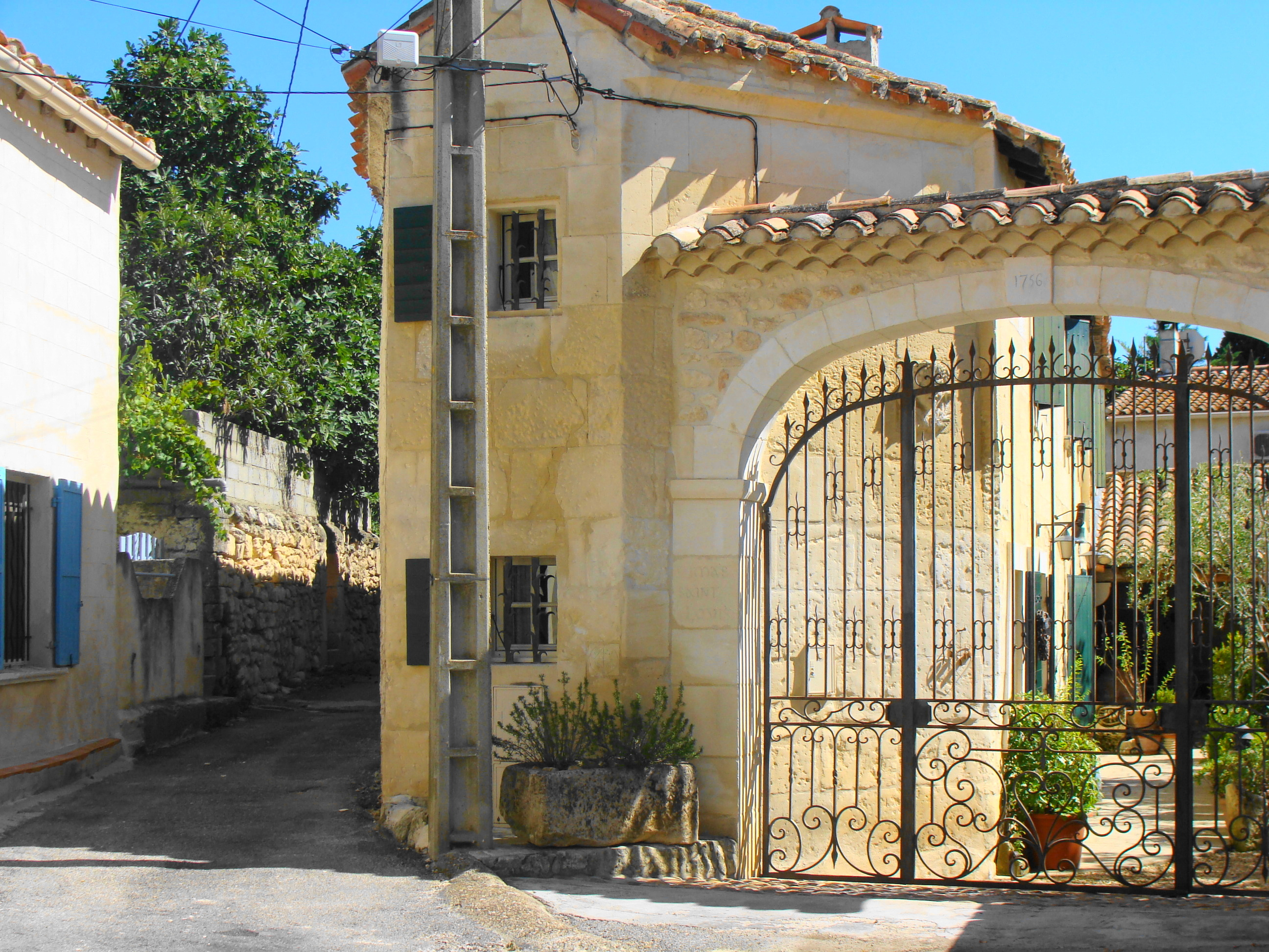 Fontvieille